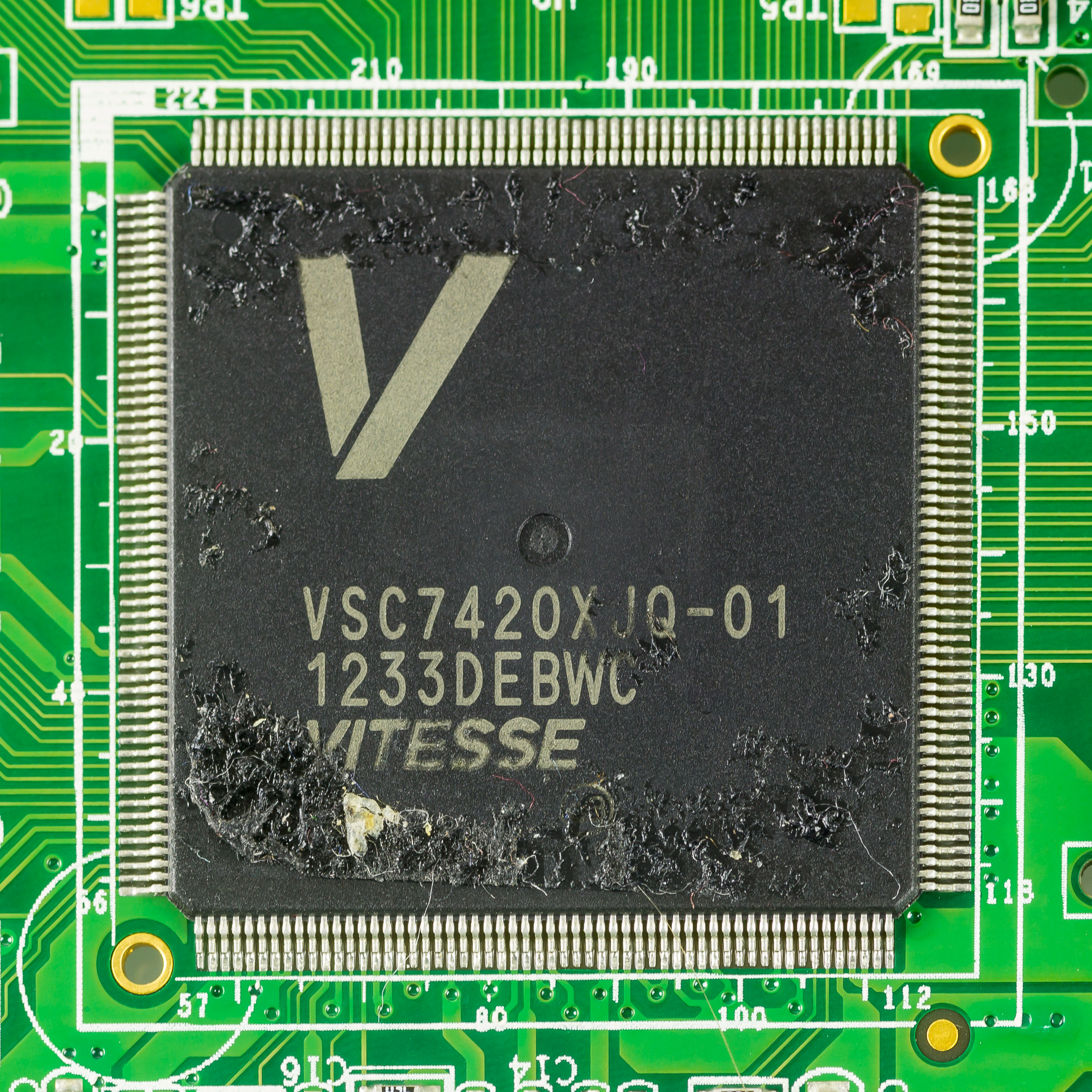 Lancom GS-1108 - Vitesse VSC7420XJQ-01 - 10-Port Layer-2 Gigabit Ethernet Switch with 8 Fully integrated Copper PHYs